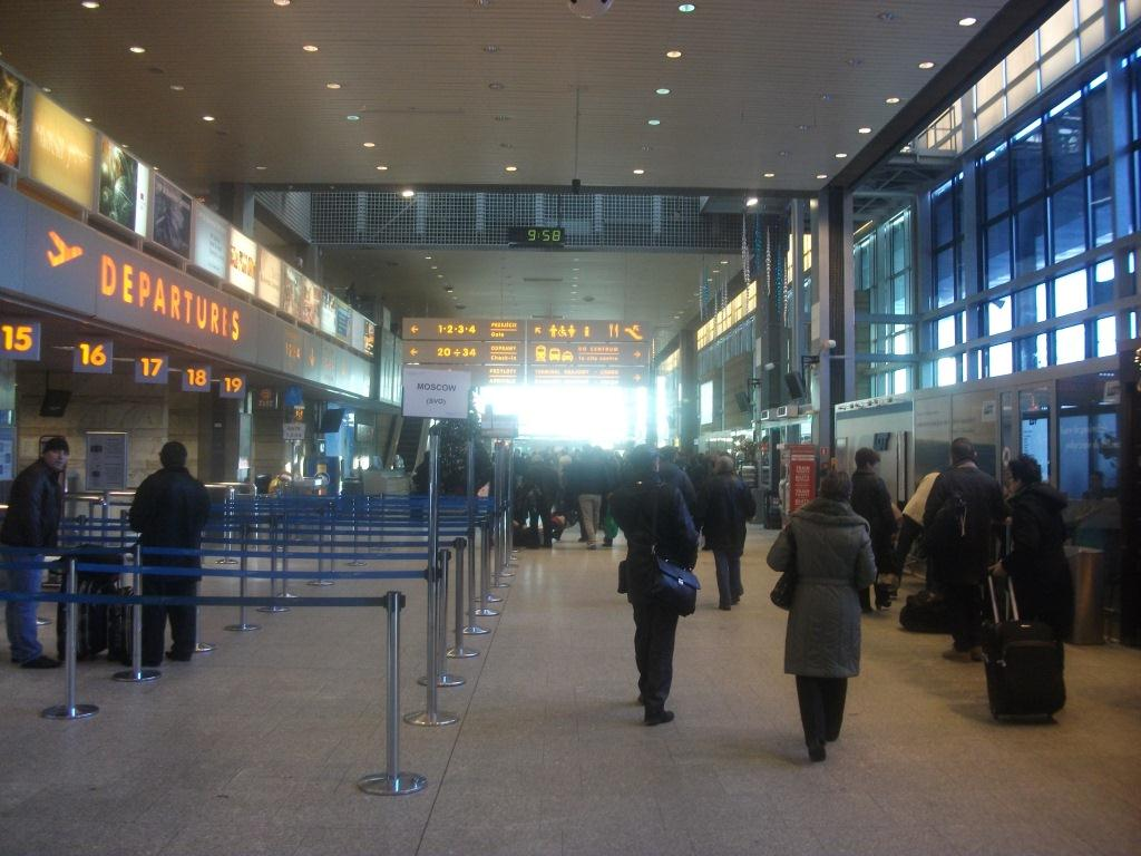 Terminal T2 inside